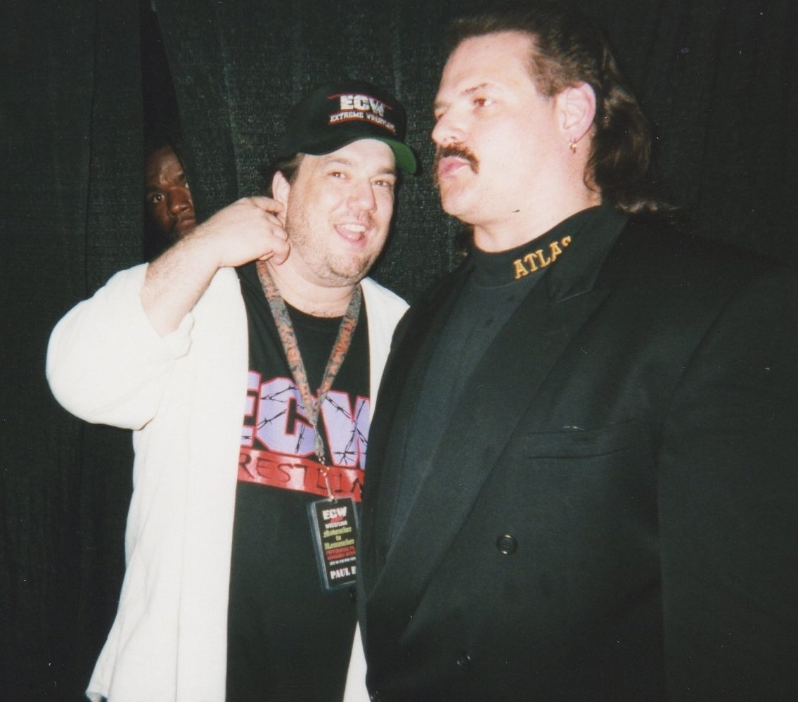 A photograph of Paul E. Dangerously taken at this show , October 4